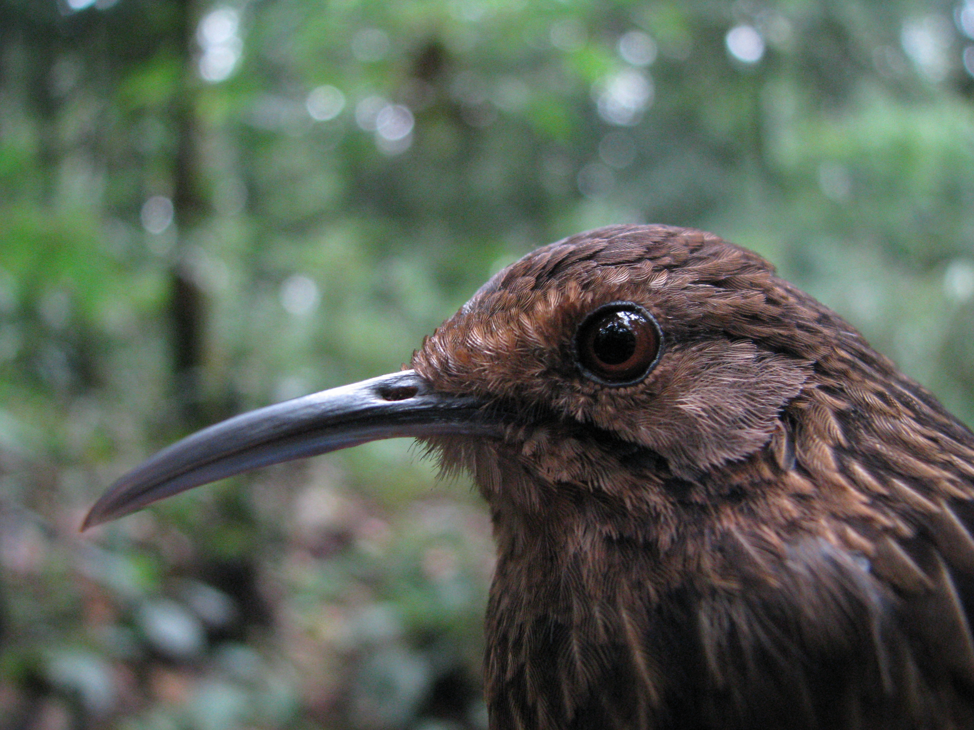 A Long-billed Wren Babbler. This bird was netted and ringed in Eaglenest Wildlife Sanctuary, Arunachal Pradesh, India.